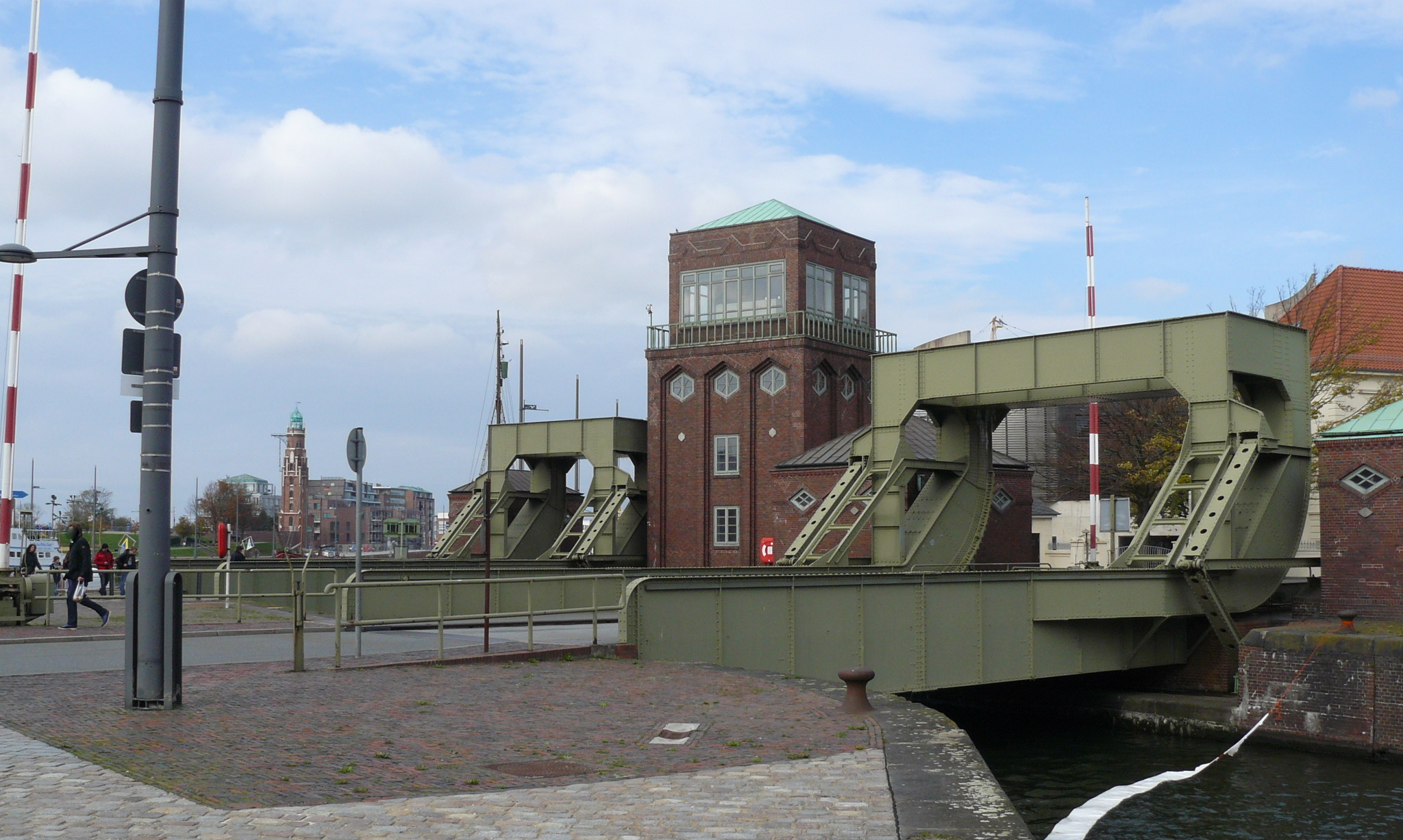 A rail and vehicle bridge over the channel connecting the old and the new harbour in Bremerhaven